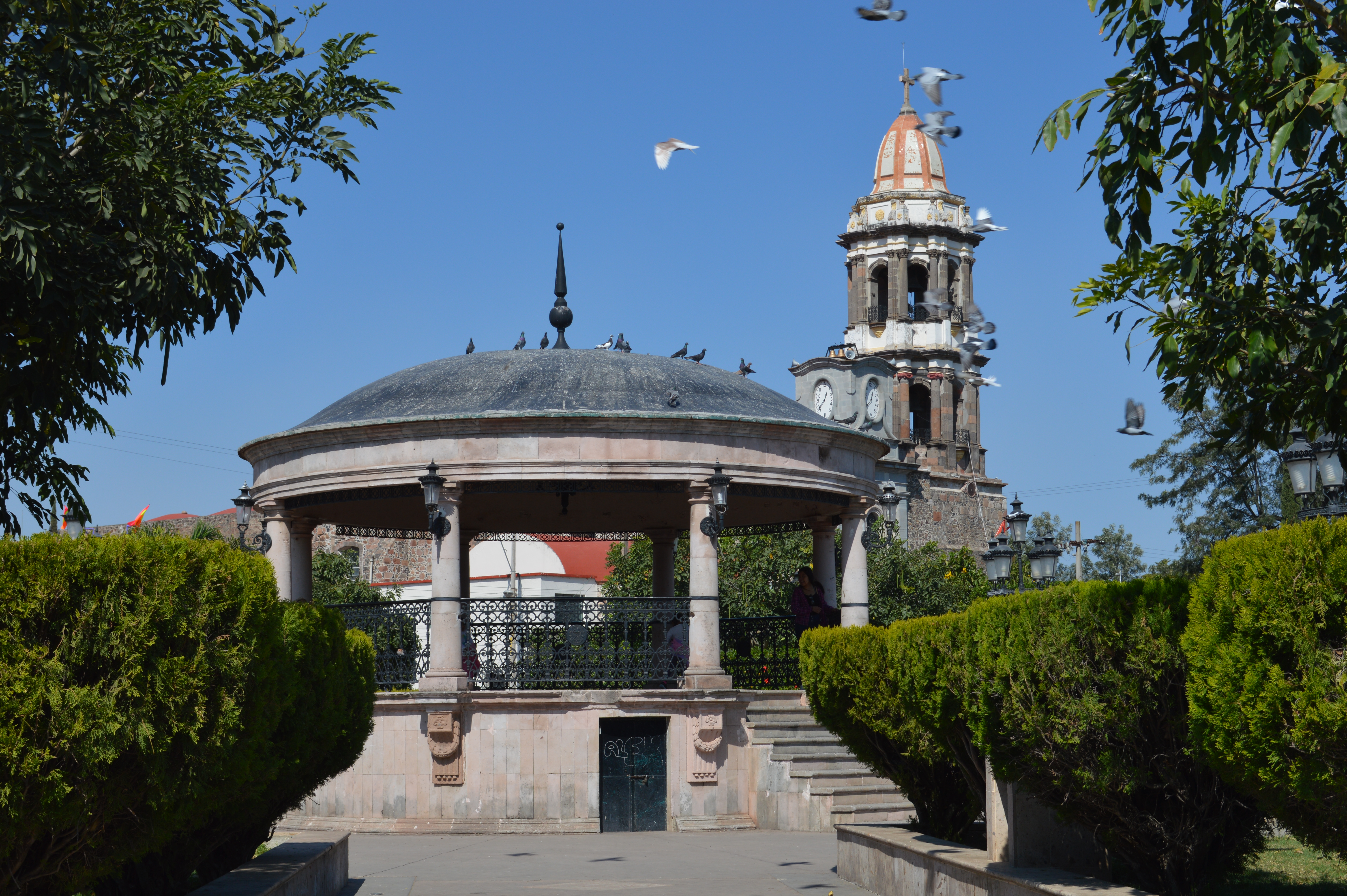 View of kiosk with San Francisco church in background in the main plaza of Zacoalco de Torres, Jalisco